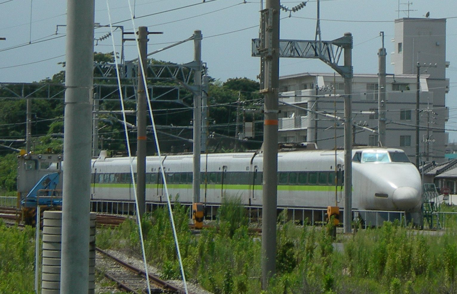 JR West 100 series training set P2 at Shimonoseki training centre (photo taken from Shimonoseki Station platform)